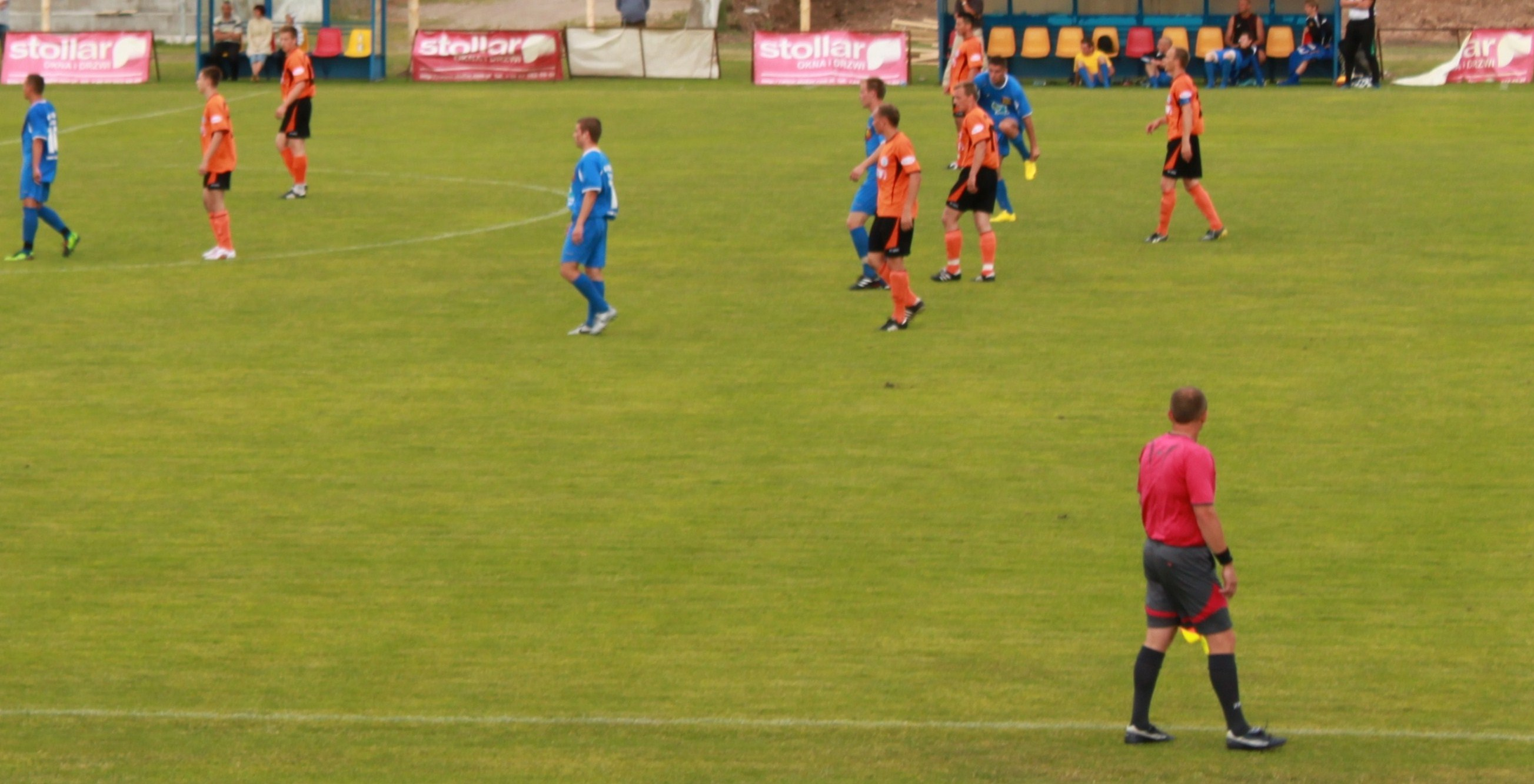 Match Wigry Suwałki against Sokół Sokółka.